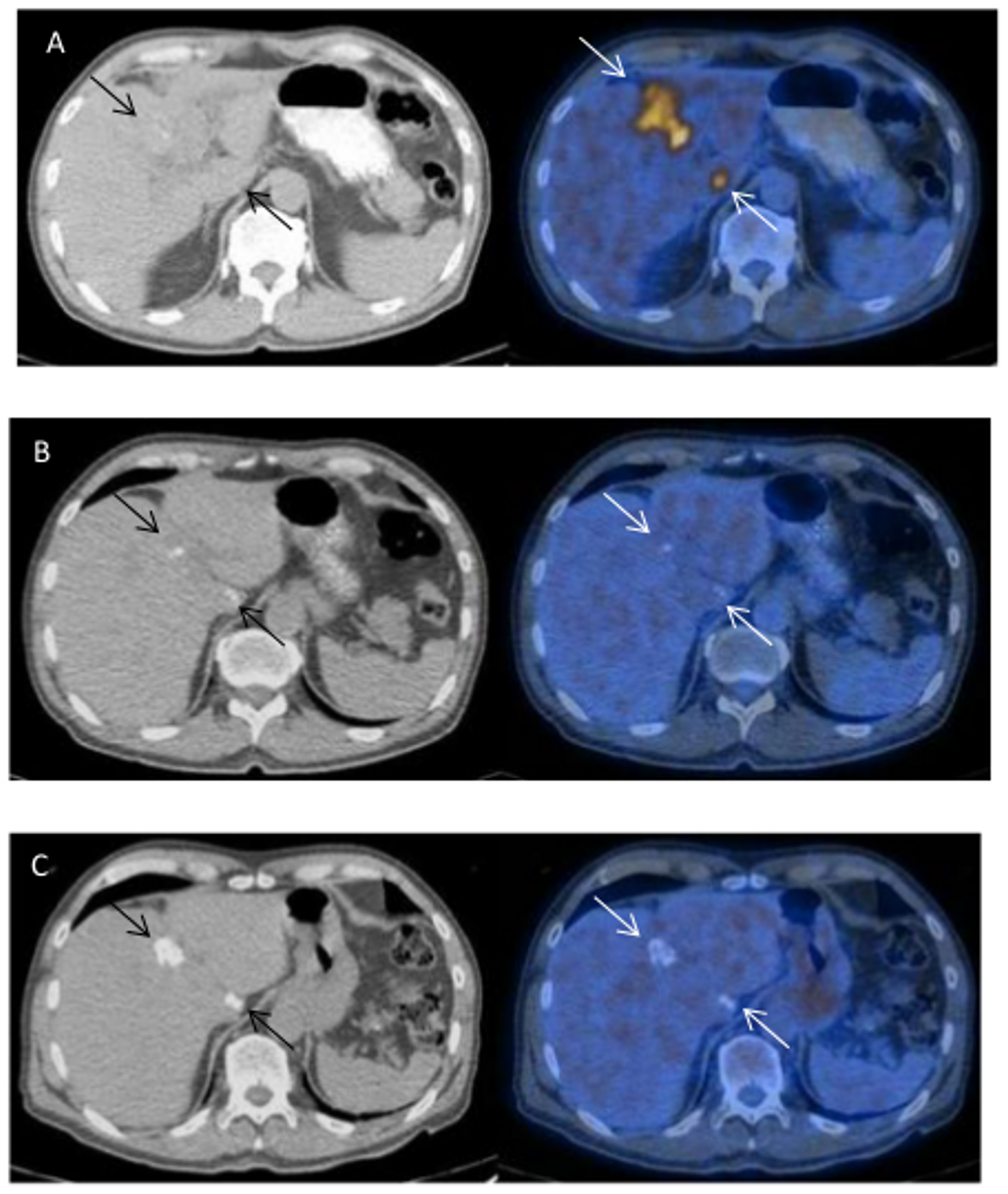 Baseline and follow-up FDG-PET/CT scans of patient with alveolar echinococcosis without i.v. contrast. a) Large and small AE-lesions (arrow) at the time of diagnosis (2003) with very strongly increased FDG uptake. b) The lesions became FDG-negative within two years of albendazole treatment. c) Progressive calcifications of AE lesions over the next 6 years after abrogation of chemotherapy (2011). No signs of FDG uptake are present.